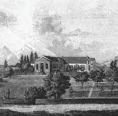 Longwood, Napoleon’s residence on St. Helena from 1815 until his death six years later.